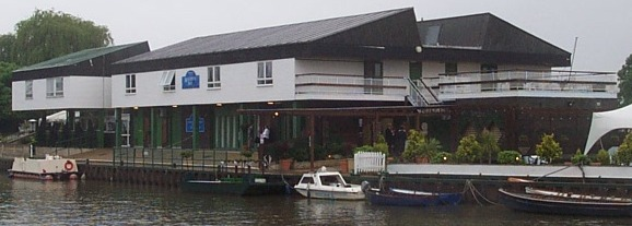 A cropped version of the file Ravens-ait-looking-upstream.jpg. Clearly displays the conference centre on Raven's Ait.